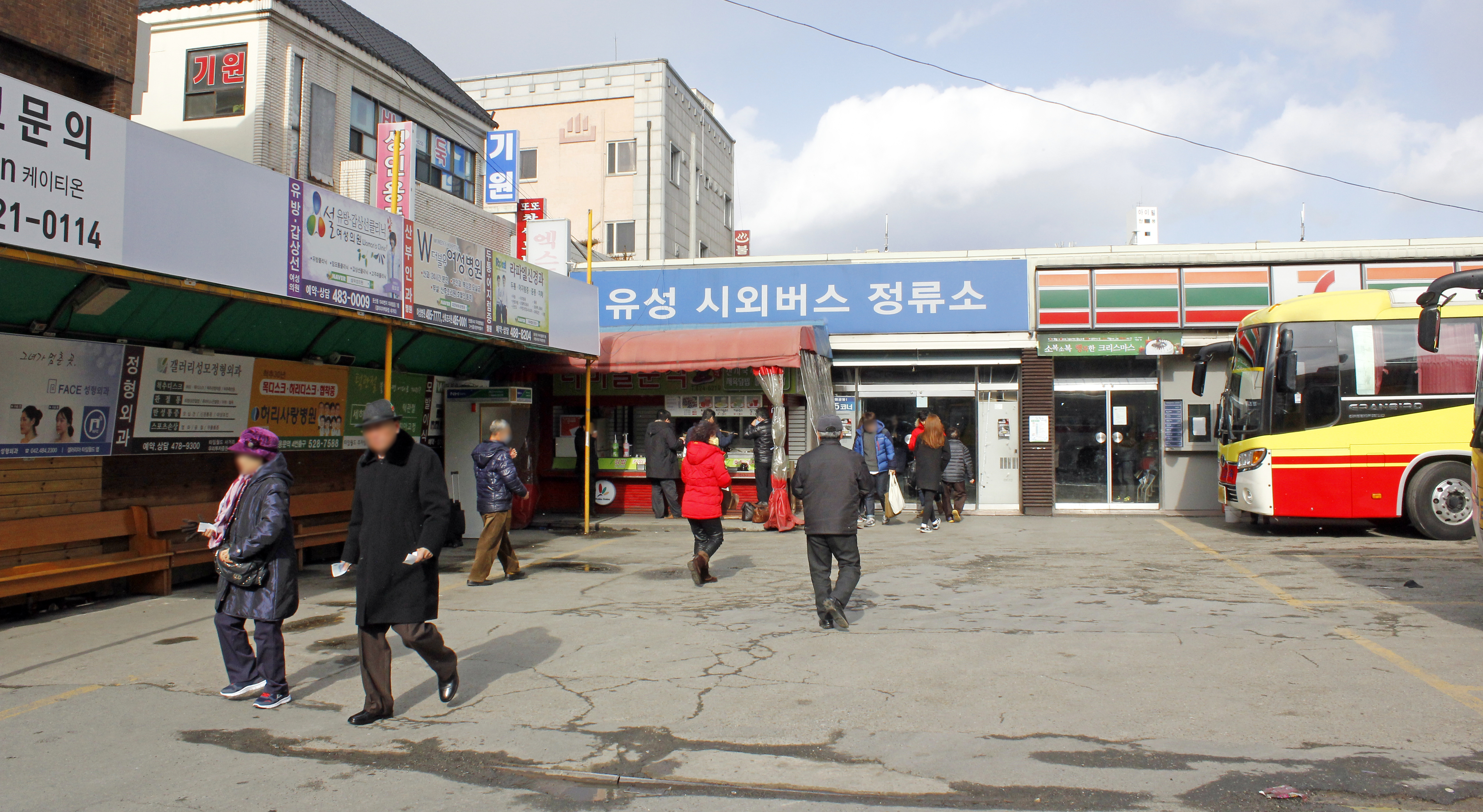 Yuseong Intercity Bus Terminal